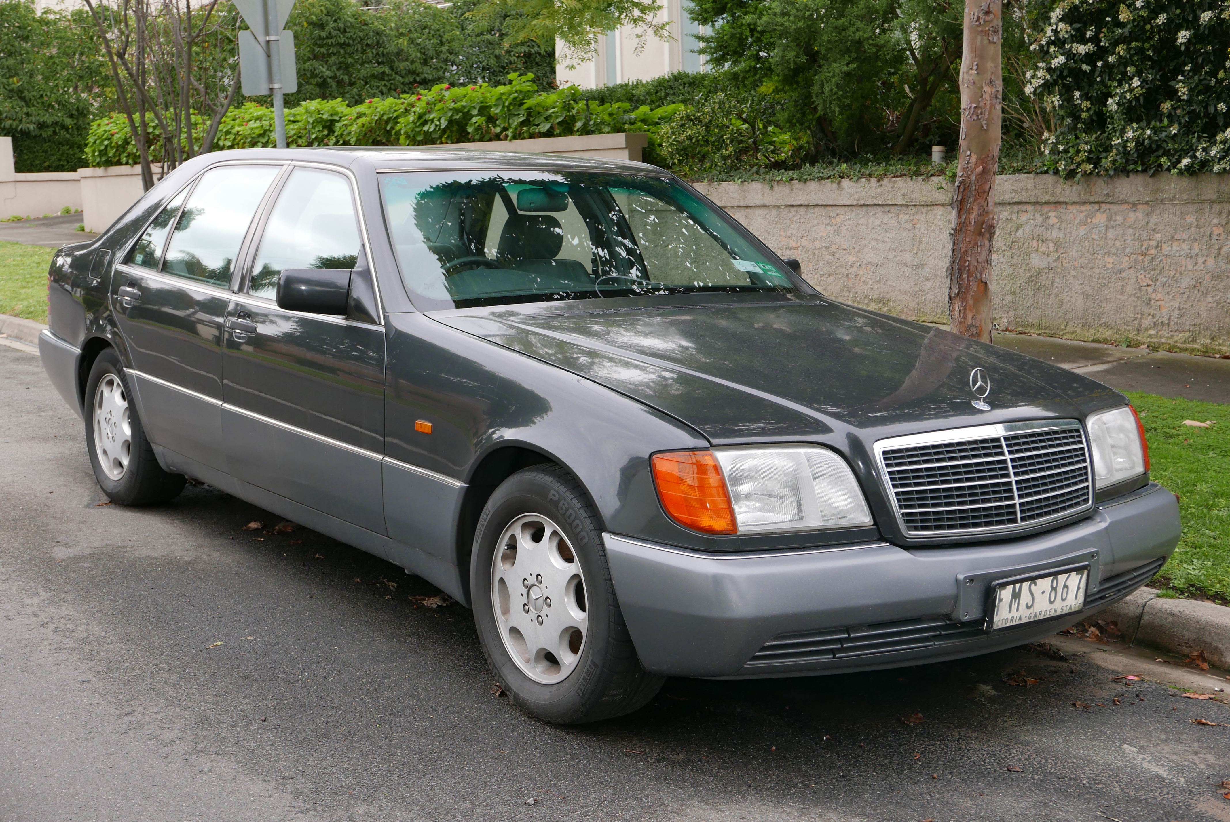 1992 Mercedes-Benz 500 SEL (V 140) sedan. Despite the date discrepancy between the description and the vehicle registration information below, a check of the VIN reveals a "delivery date" of 26 November 1992. The styling of the car is also representative of a 1992–1993 vintage V 140 but not one from 1994. Photographed in Kew, Victoria, Australia. Vehicle registration enquiry results Jurisdiction Victoria Registration FMS867 Chassis code WDB1400512A117183 Engine code 11997022030348 Compliance date 1994-04 Year of manufacture 1994